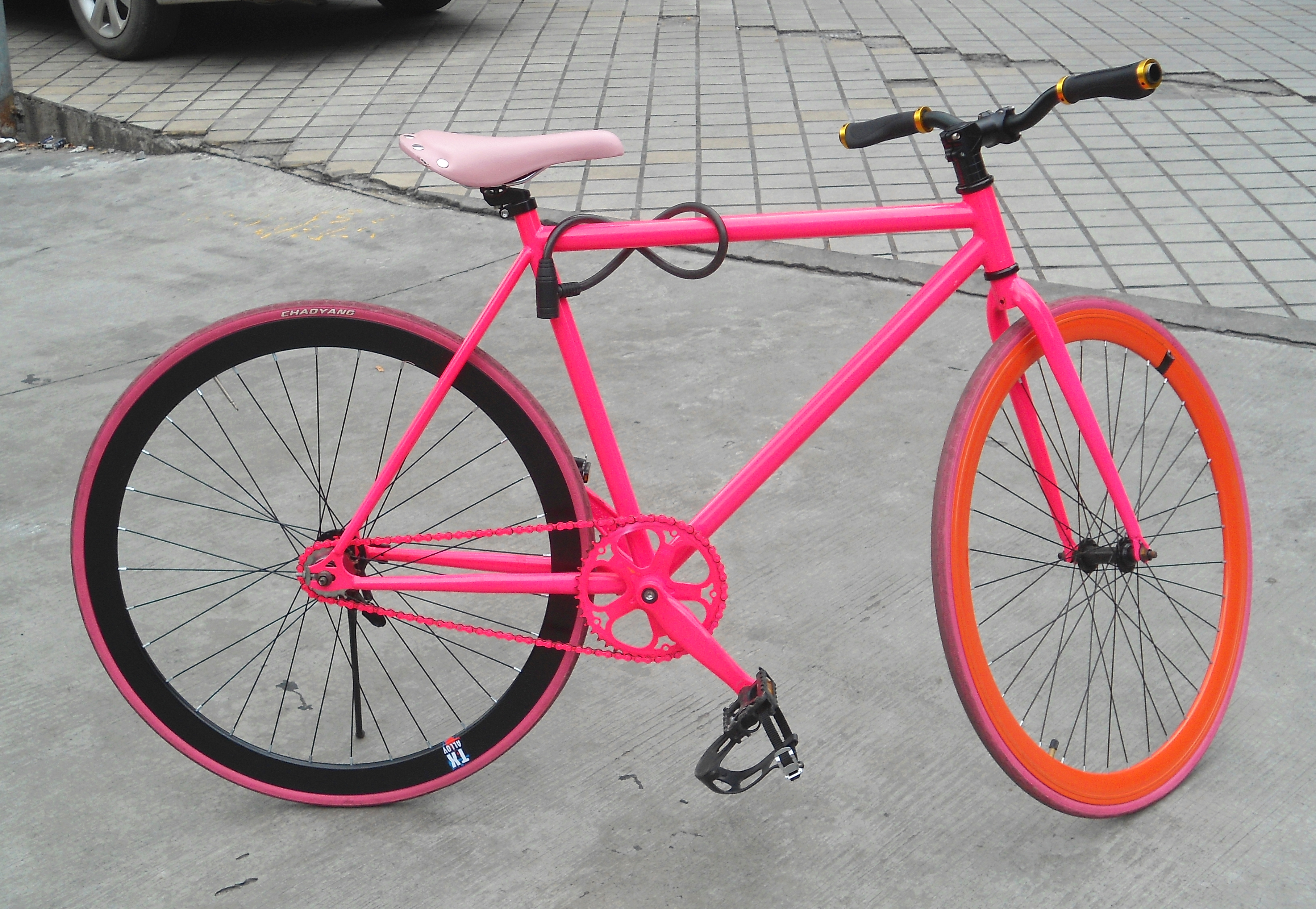 A typical fixed-gear bicycle in Haikou, Hainan, China.